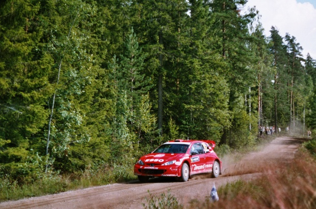 Henning Solberg driving a Peugeot 206 WRC at the 2004 Neste Rally Finland.